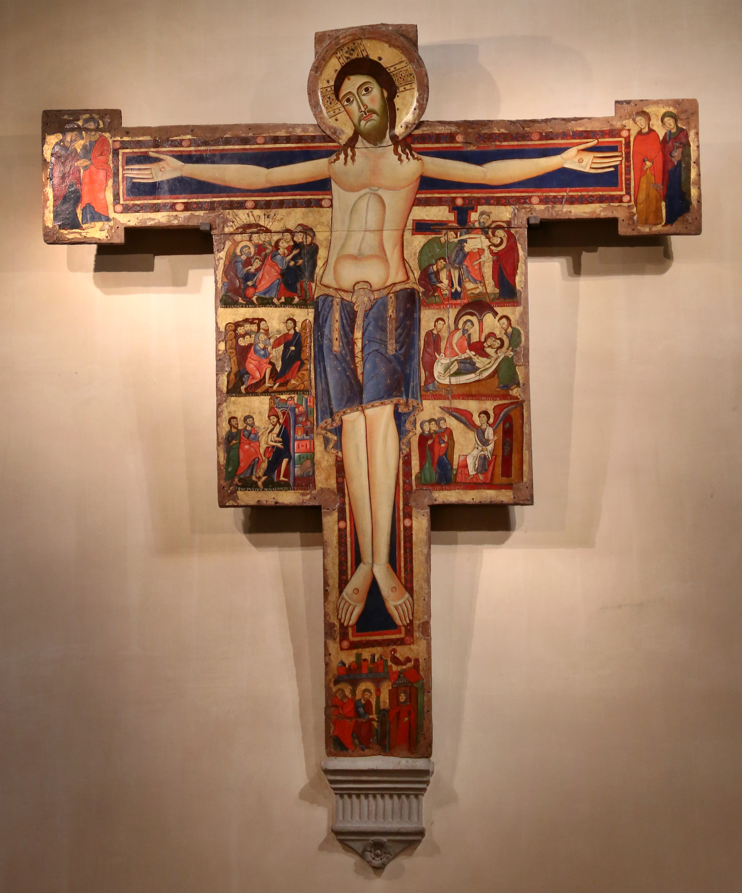 Monastero di Santa Maria a Rosano